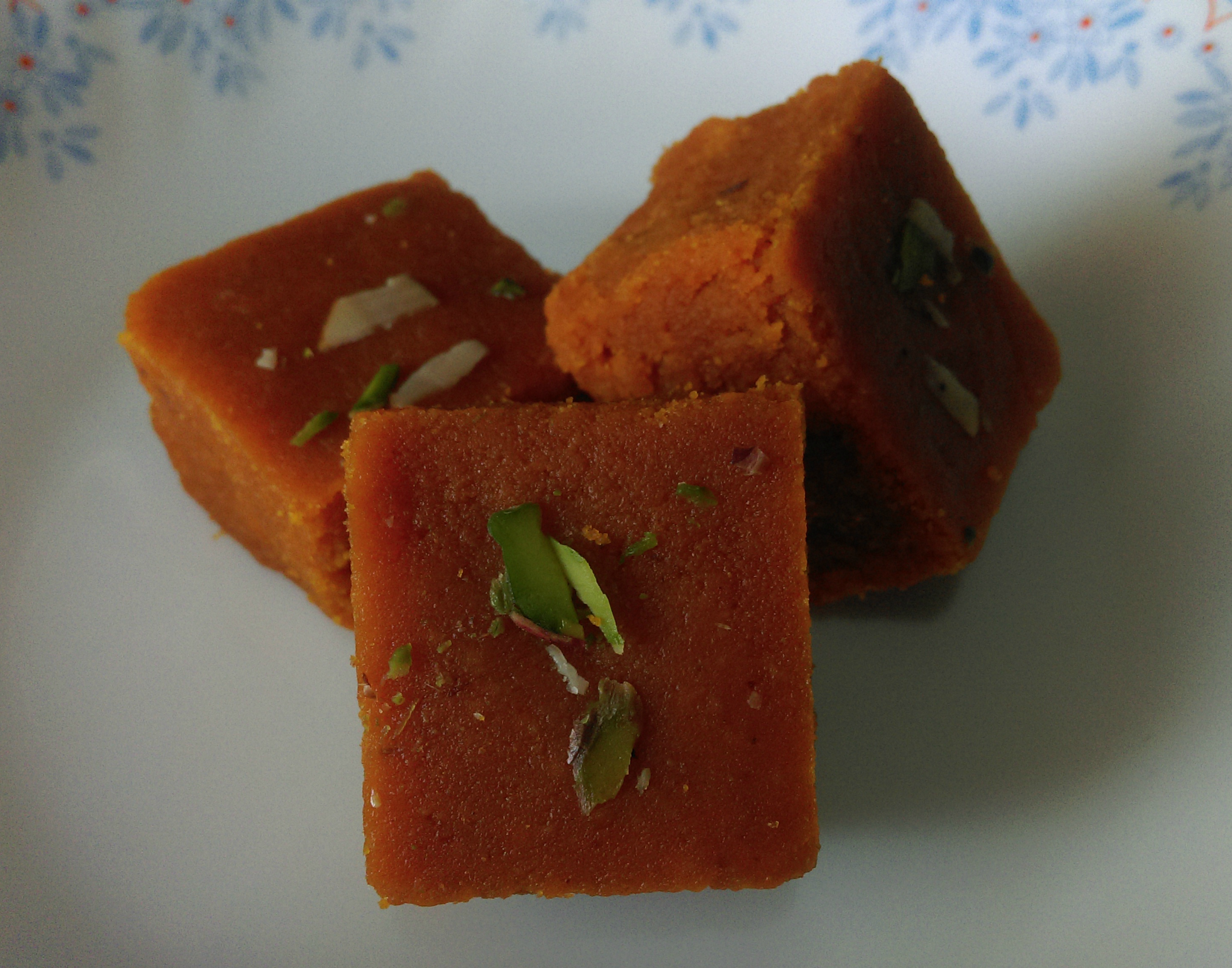 Gujarati Mohanthar (Gram Flour Fudge) ગુજરાતી: ગુજરાતી મોહન્ થાર્